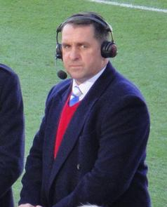 Football manager Martin Allen working as a pundit for ESPN in January 2013